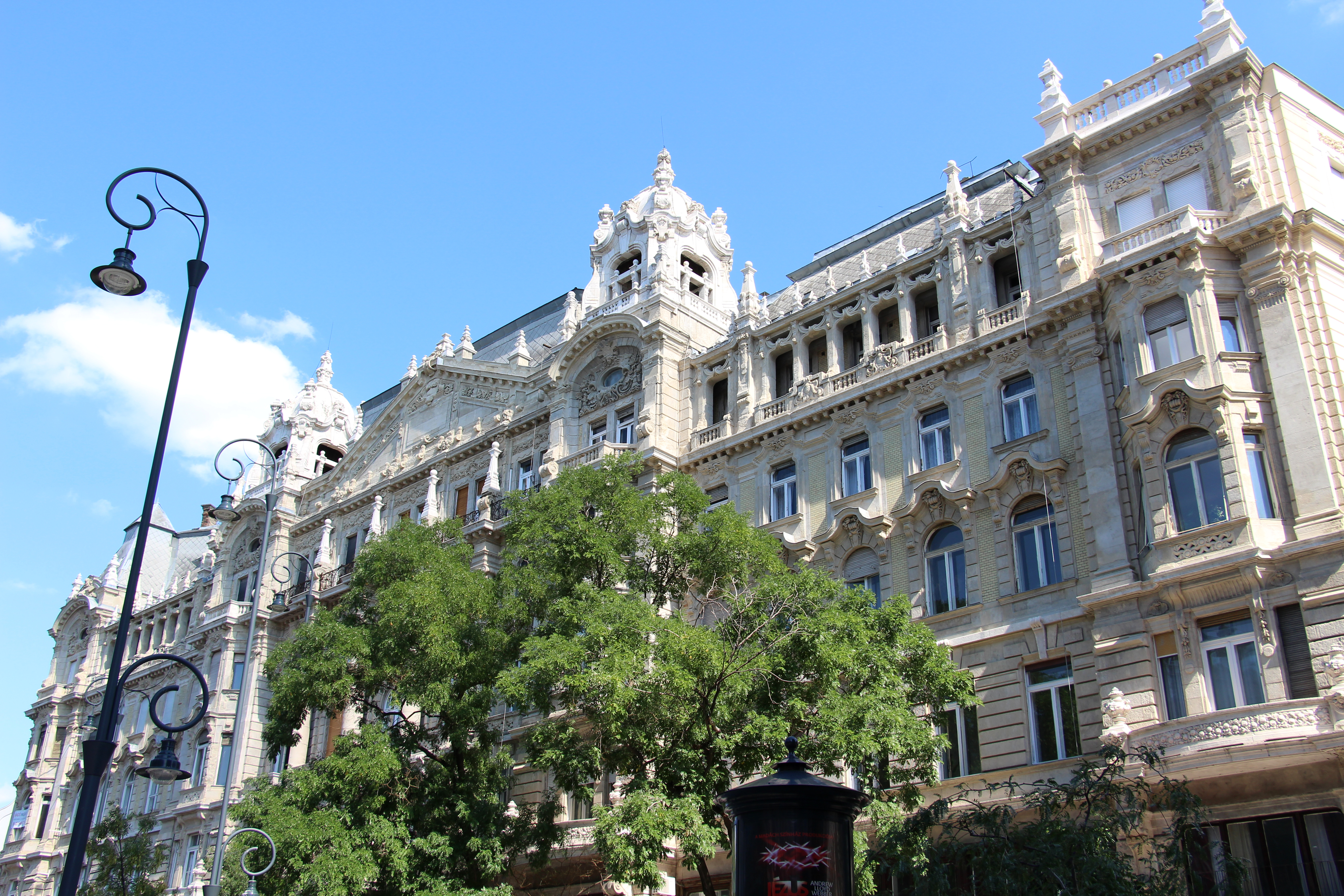 Belváros - Ferenciek tere Royal apartment building. Hungarian secession. Arch. Flóris Korb and Kálmán Giergl 1902